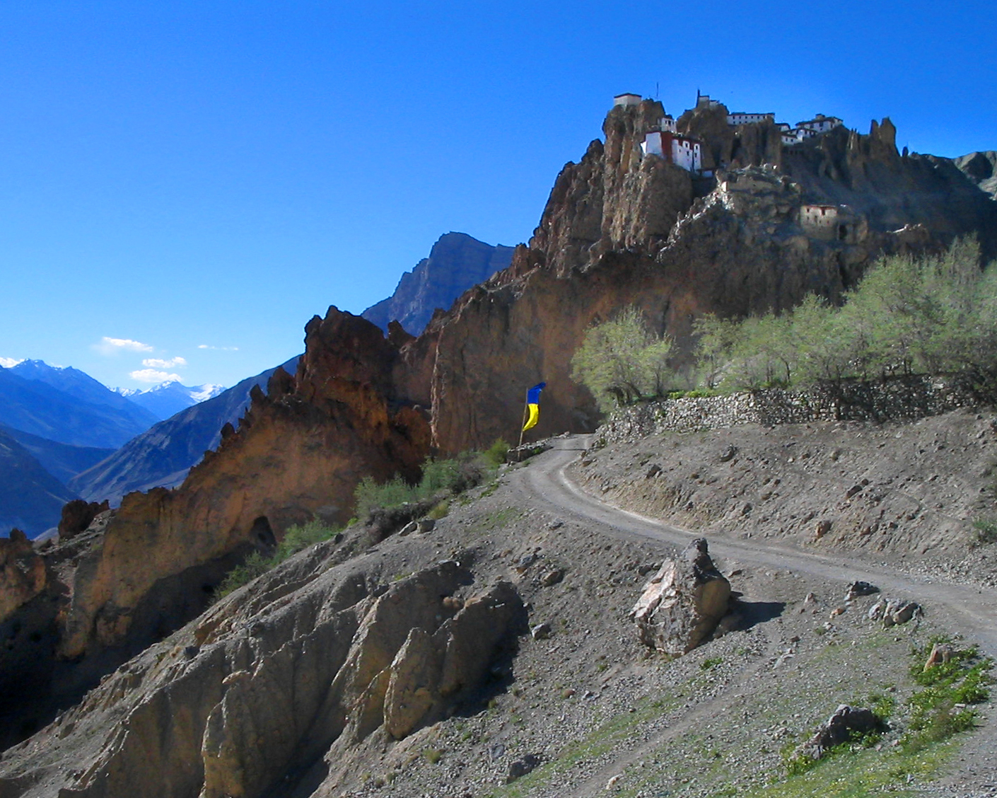 Jonathan Greeley, Dhankar Gompa, photographed May 29, 2004. Jonathan Greeley, Dhankar Gompa, photographed May 29, 2004.